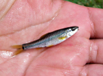 Dionda diaboli USFWS photo